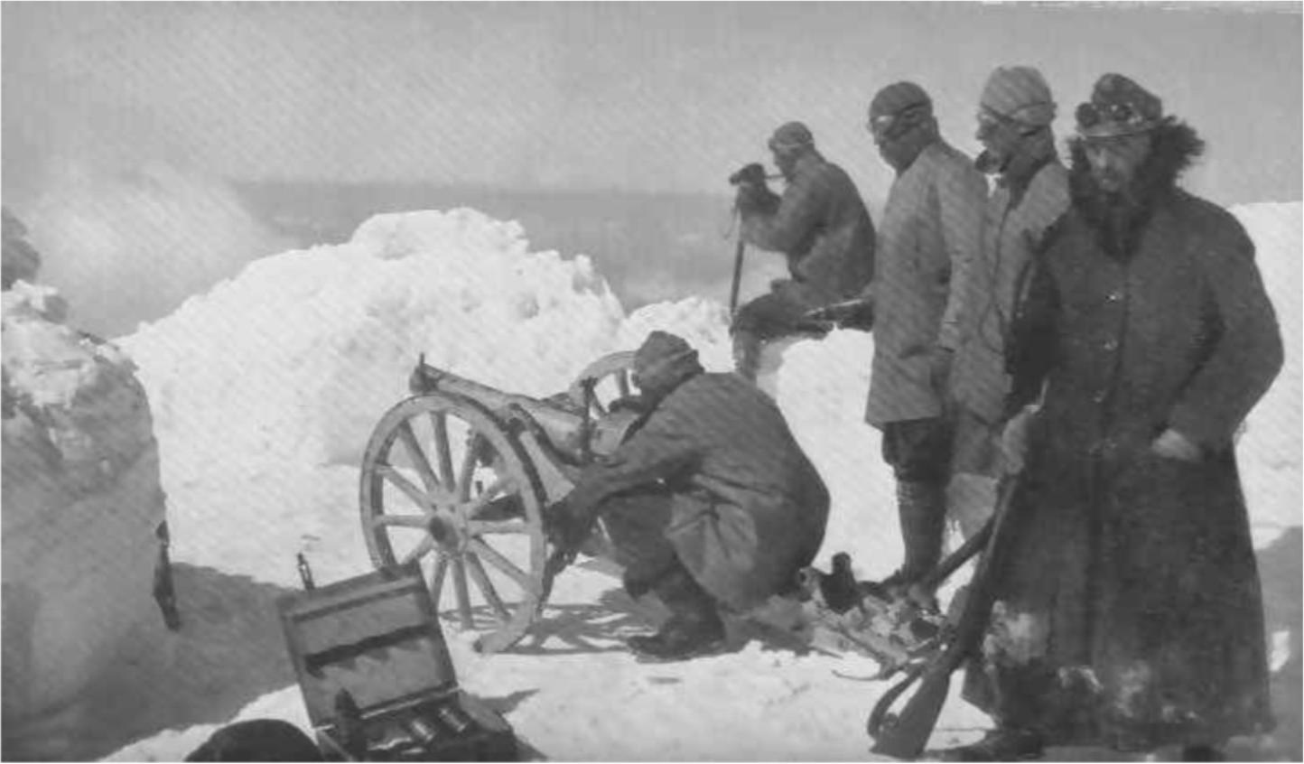 Old Austro-Hungarian Mountain Gun. Caliber of probably 7 centimeters